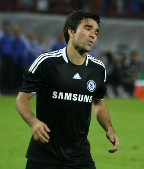 Deco